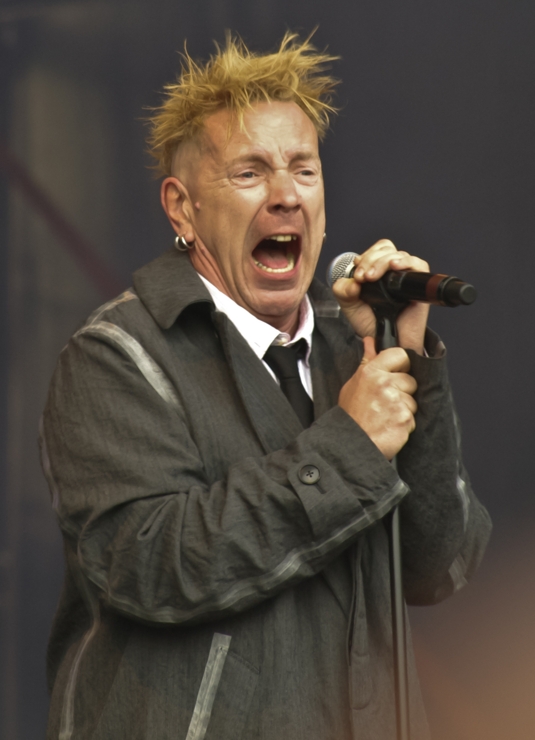 John Lydon Public Image Limited (PiL) Taken at Bingley Music Live, September 04 2010. John Lydon - Legend (aka Johnny Rotten of Sex Pistols fame)